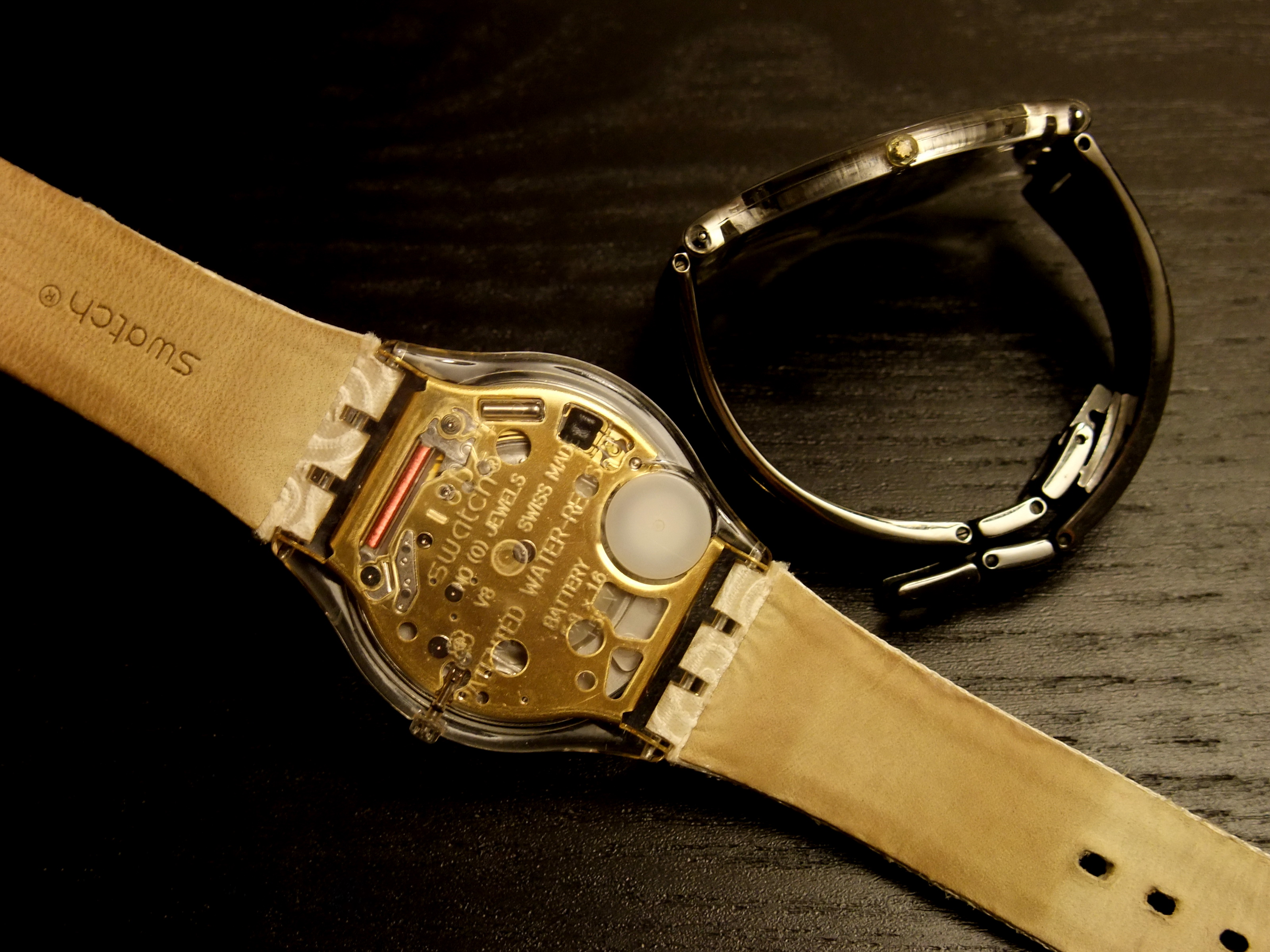 Swatch Skin classic showing the transparent case back.